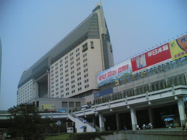 Hangzhou Train Station, Hangzhou, China.